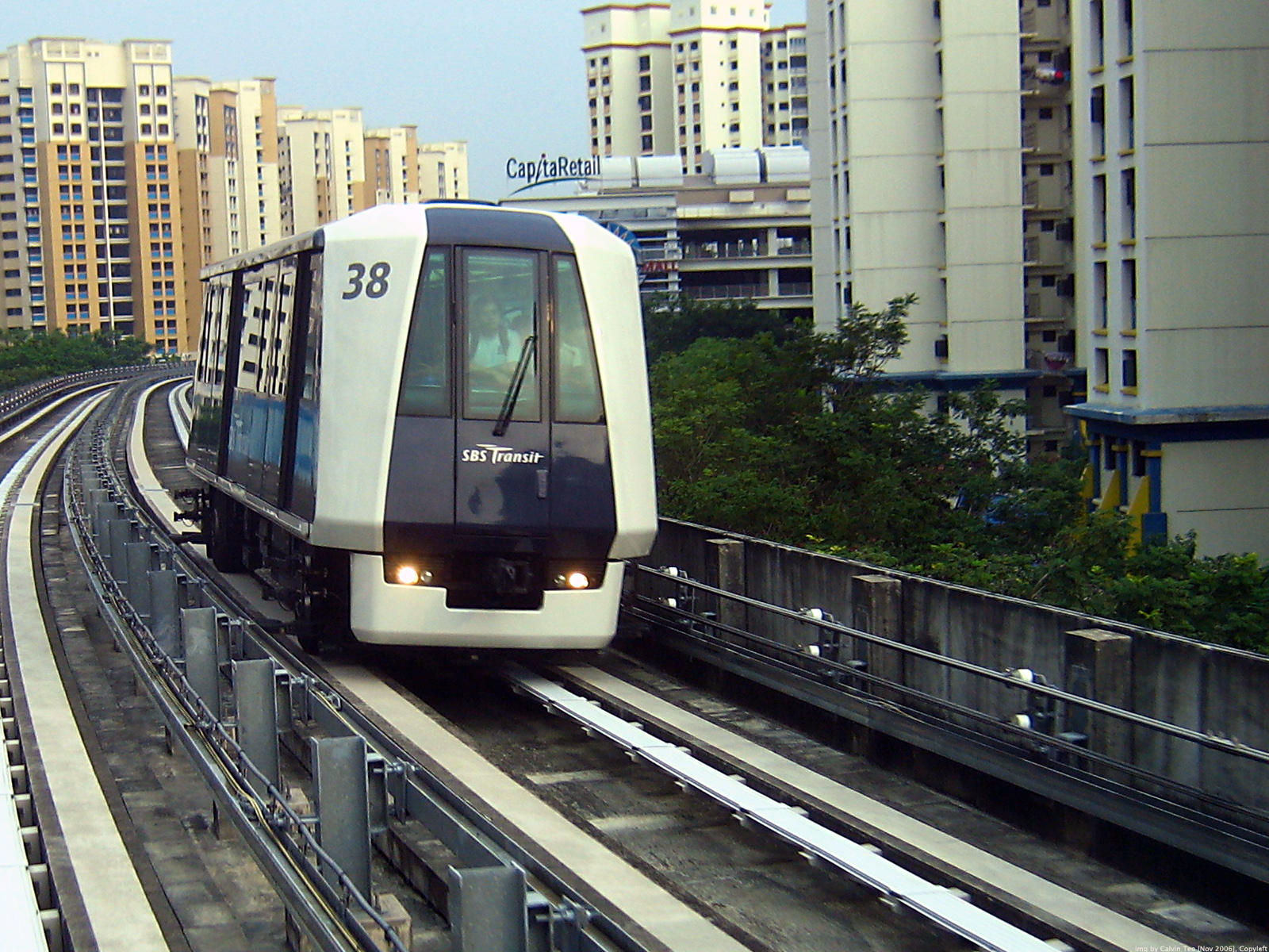 Mitsubishi Heavy Industries Crystal Mover Cars on the Sengkang LRT System